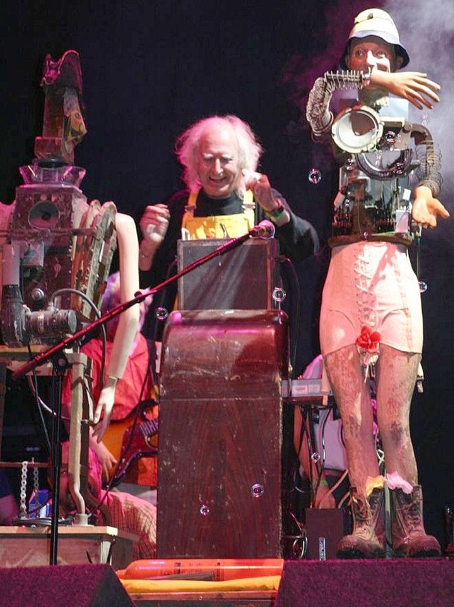 Bruce Lacey performing with Fairport Convention on August 14th 2004